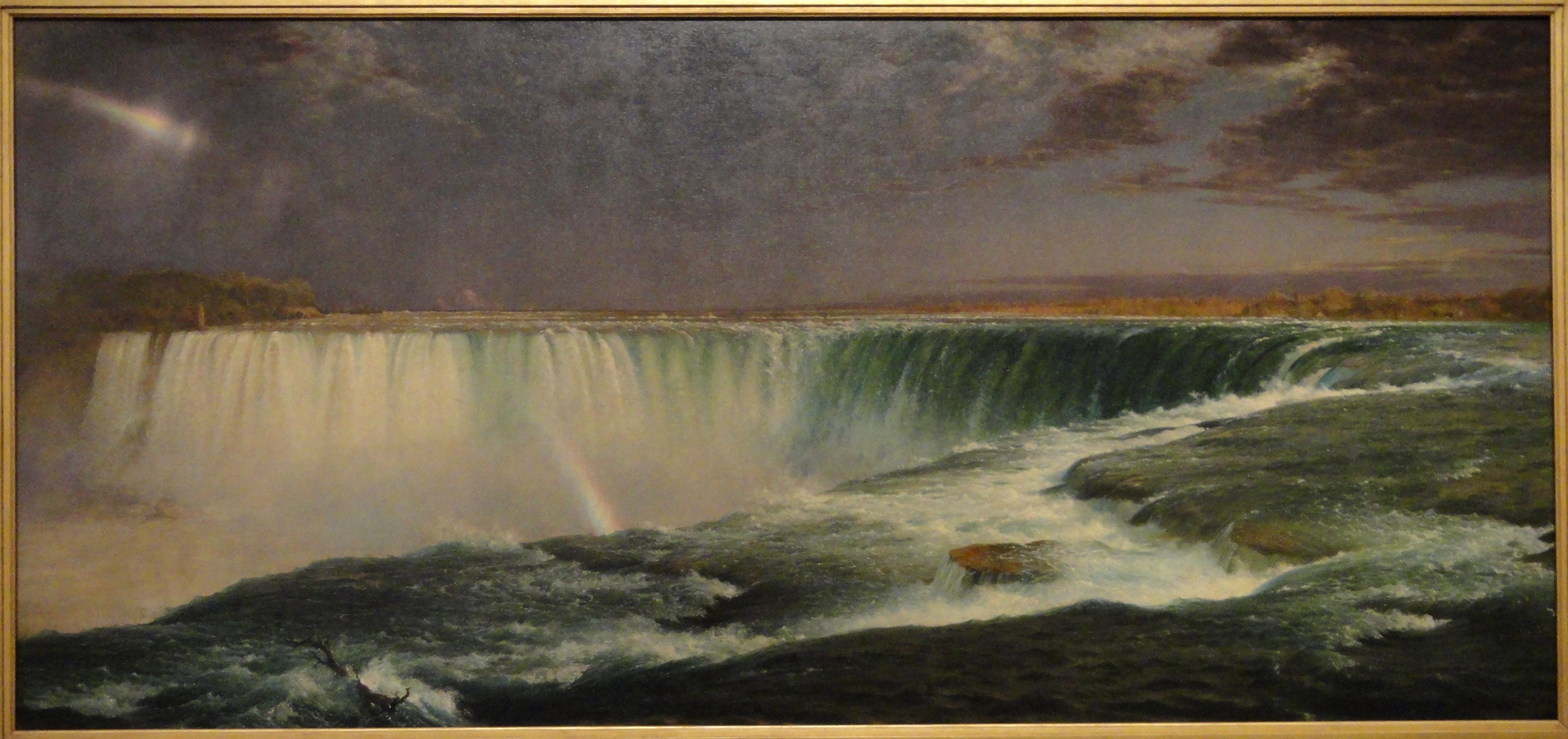 Painting exhibited in the Corcoran Gallery of Art, Washington, D.C., USA. There were no prohibitions against photography in the museum. This artwork is in the public domain because the artist died more than 70 years ago.